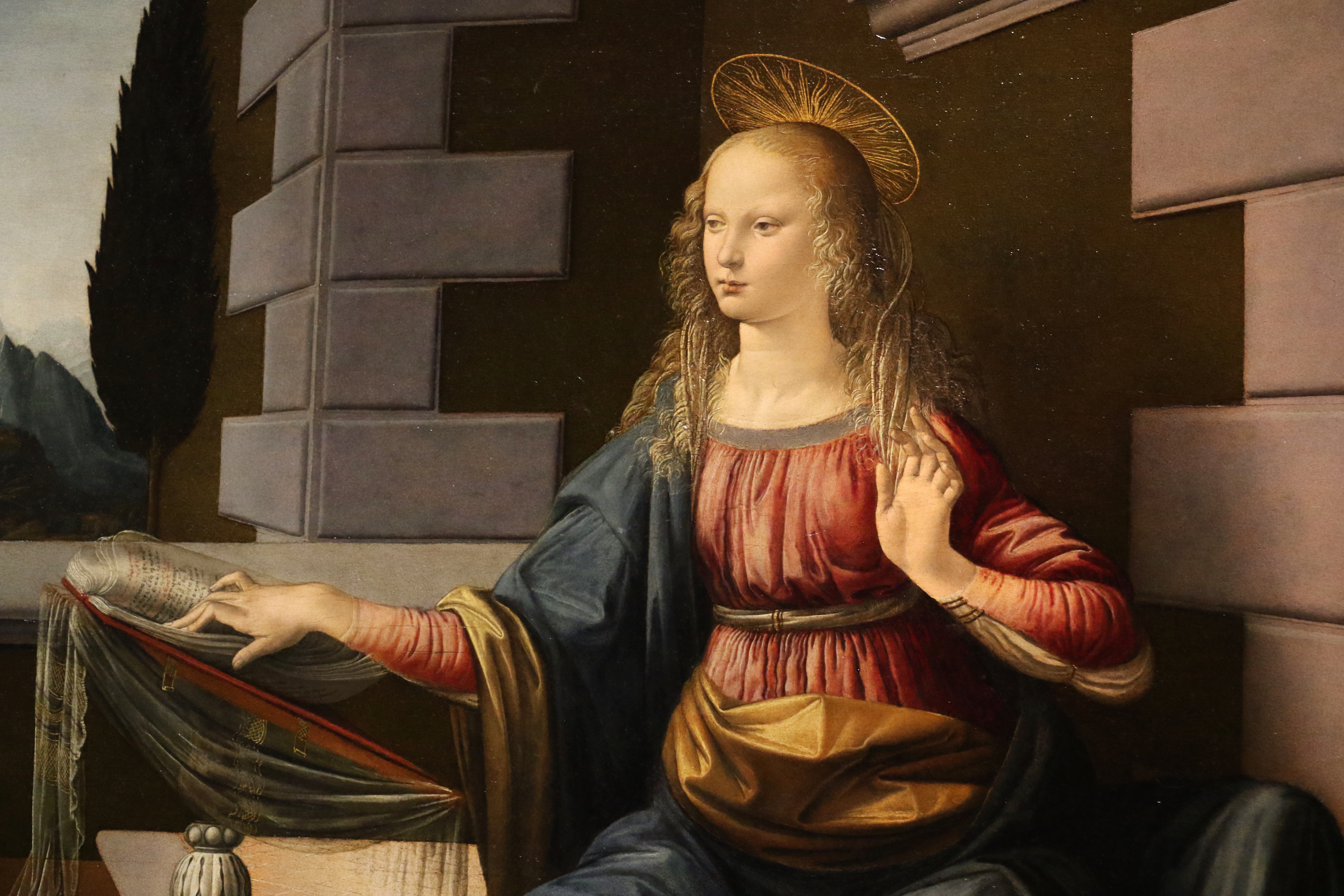 Leonardo da Vinci (1452-1519) Annunciation (1472-1475) - Uffizi Gallery Florence